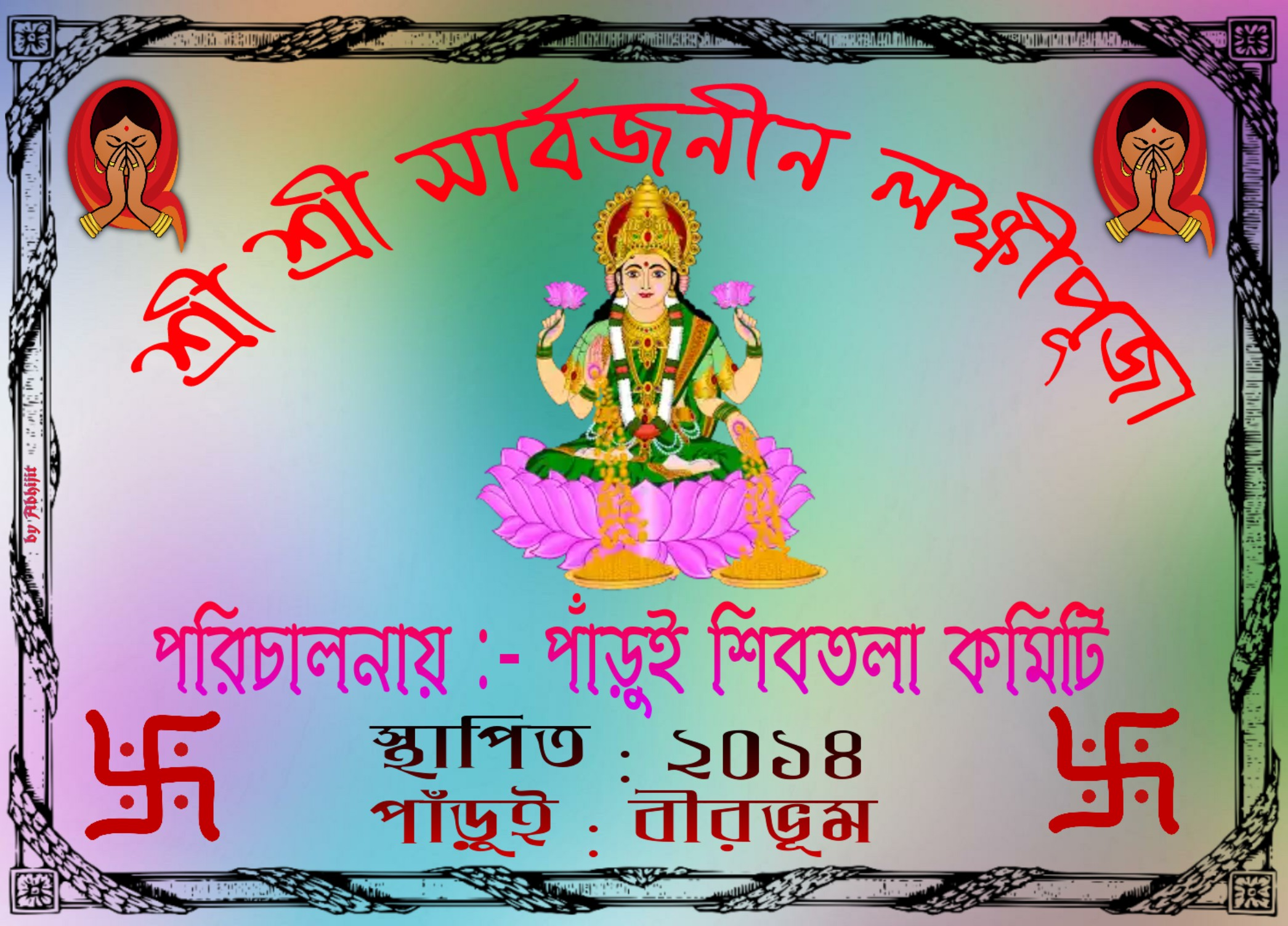 Laxmi Puja Banner 2014 by Pnrui Shibtala Committee